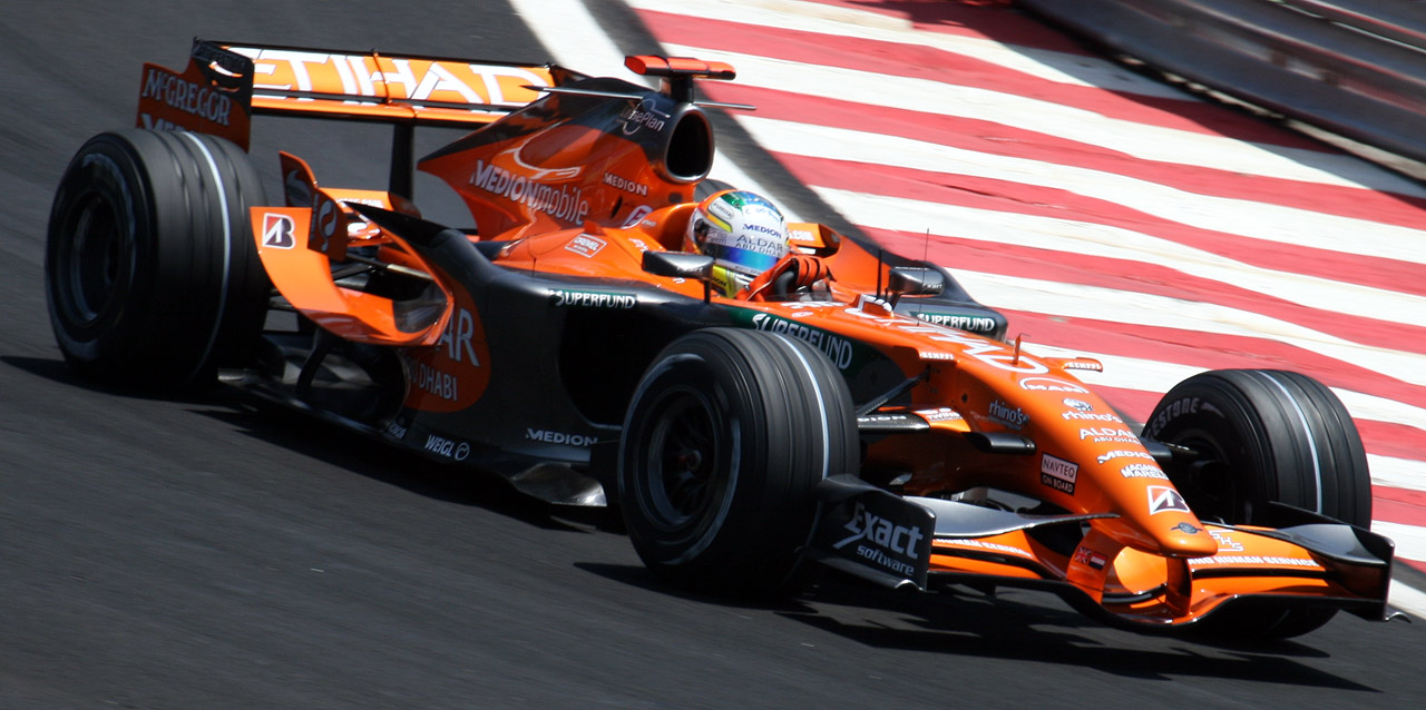 Formula One 2007 Rd.17 Brazilian GP: Adrian Sutil (Spyker) at the free practice on Saturday